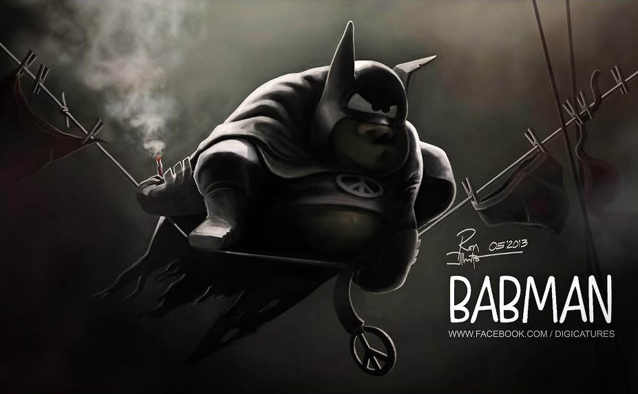 Digital colored Fan art of Babman by digicatures